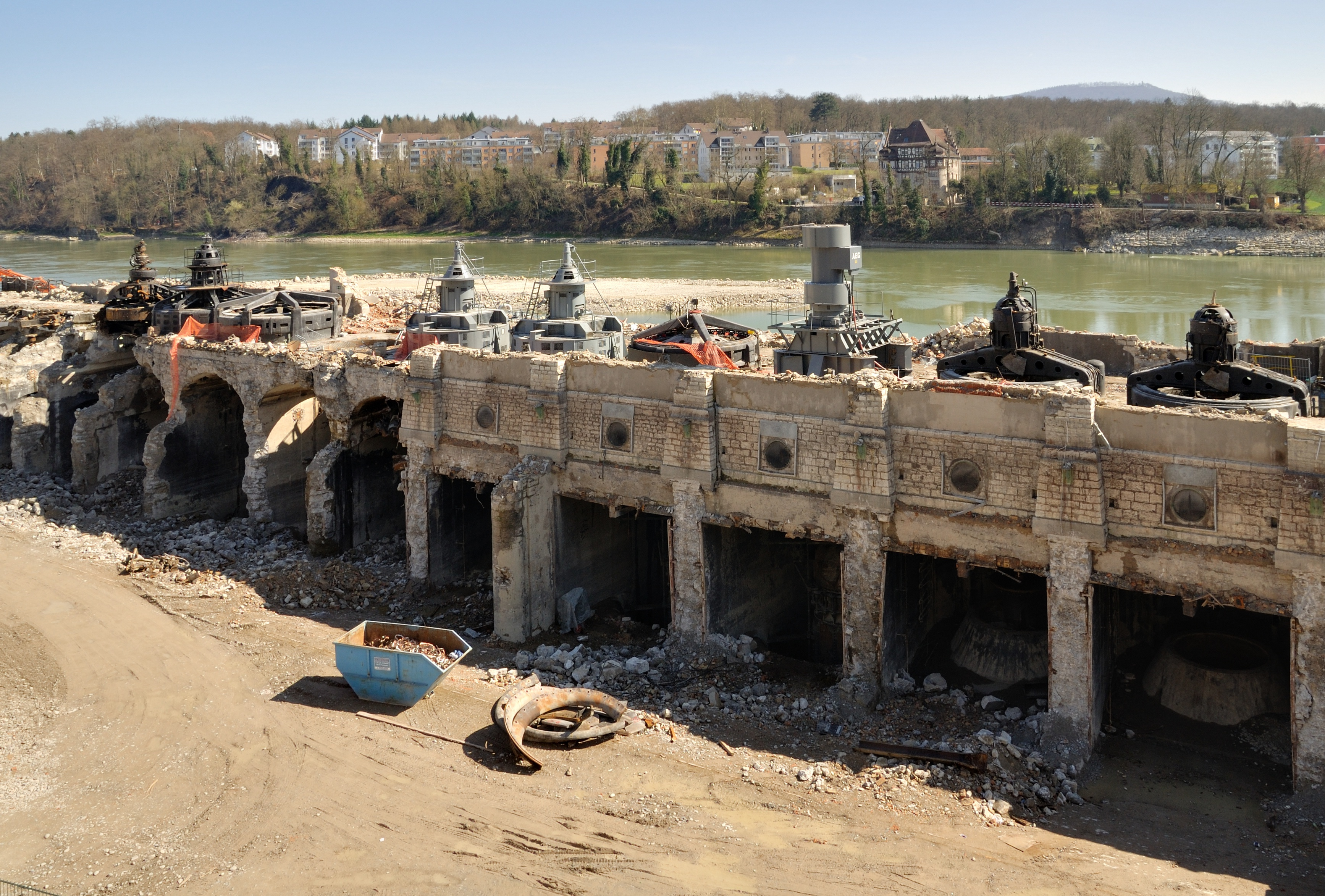 Rheinfelden: remaining parts of the old hydroelectric power plant, turbine are partially visible